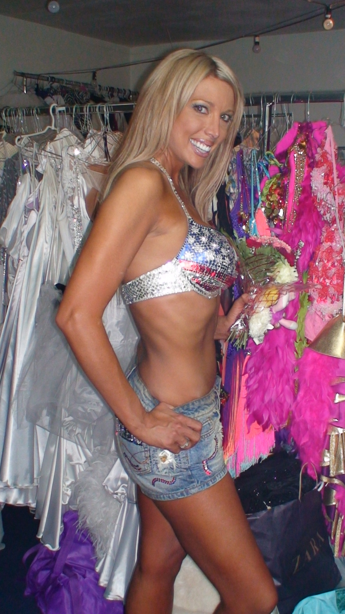 Tamara Gee Dancing with the Stars